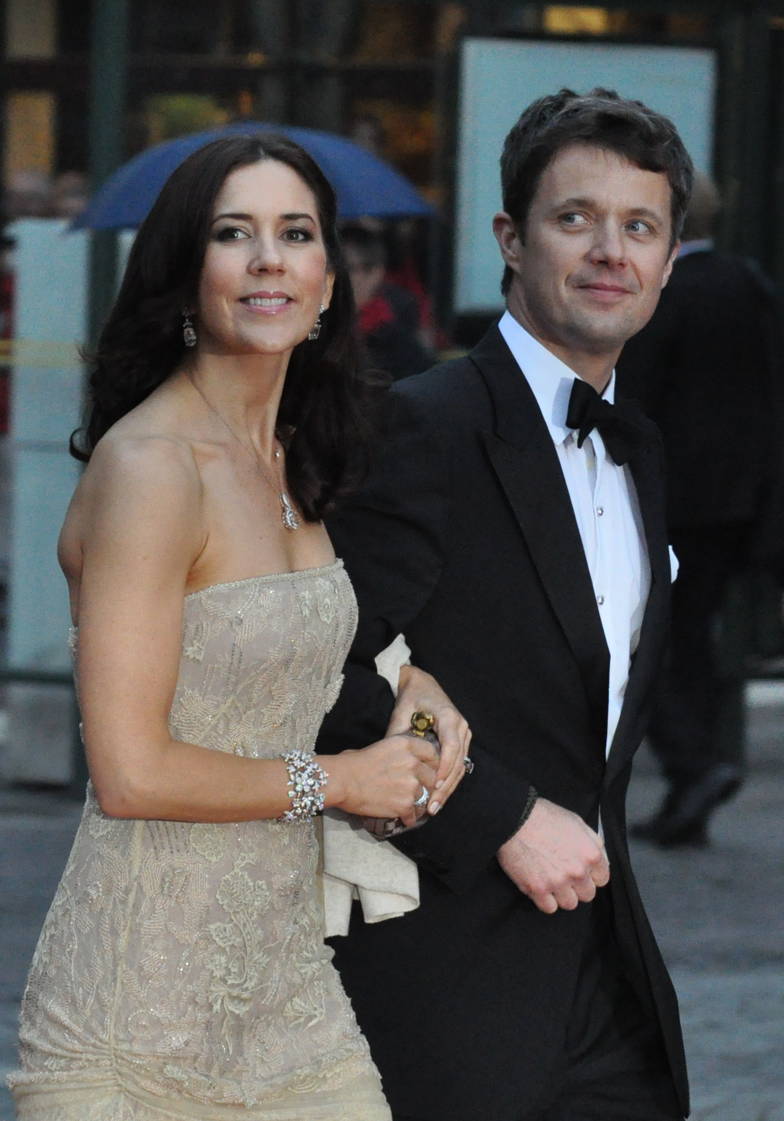 Wedding of Victoria, Crown Princess of Sweden, and Daniel Westling; Arrival of members for the Gouvernment and Swedish and foreign guests of hounour to the Riksdag's Gala Performance at Konserthuset